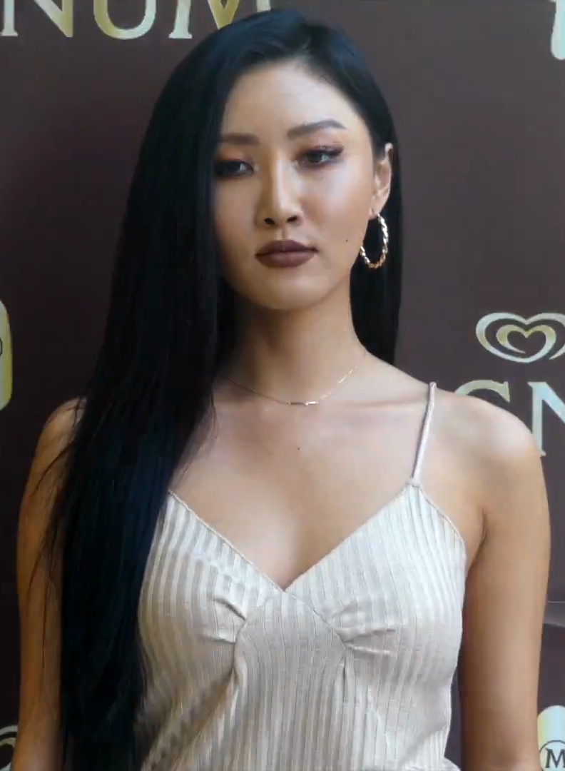 Hwasa at the MAGNUM Ice Cream Pleasure Store opening on 15 June 2018